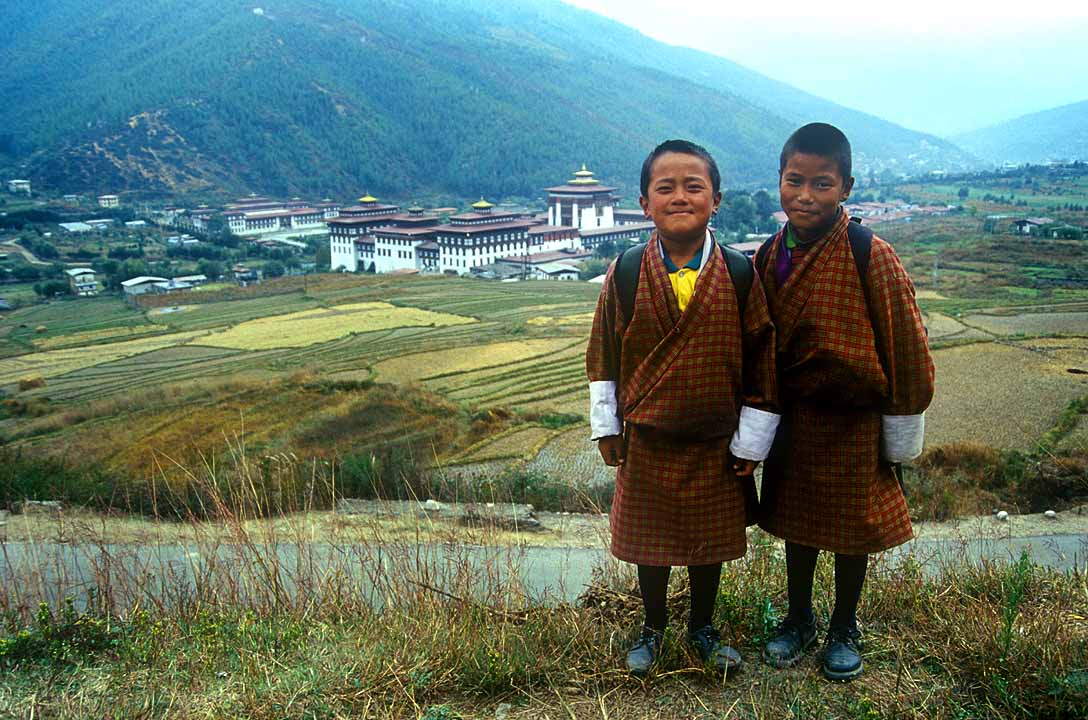 Children & Royal Palace, Thimphu, BhutanBhutan